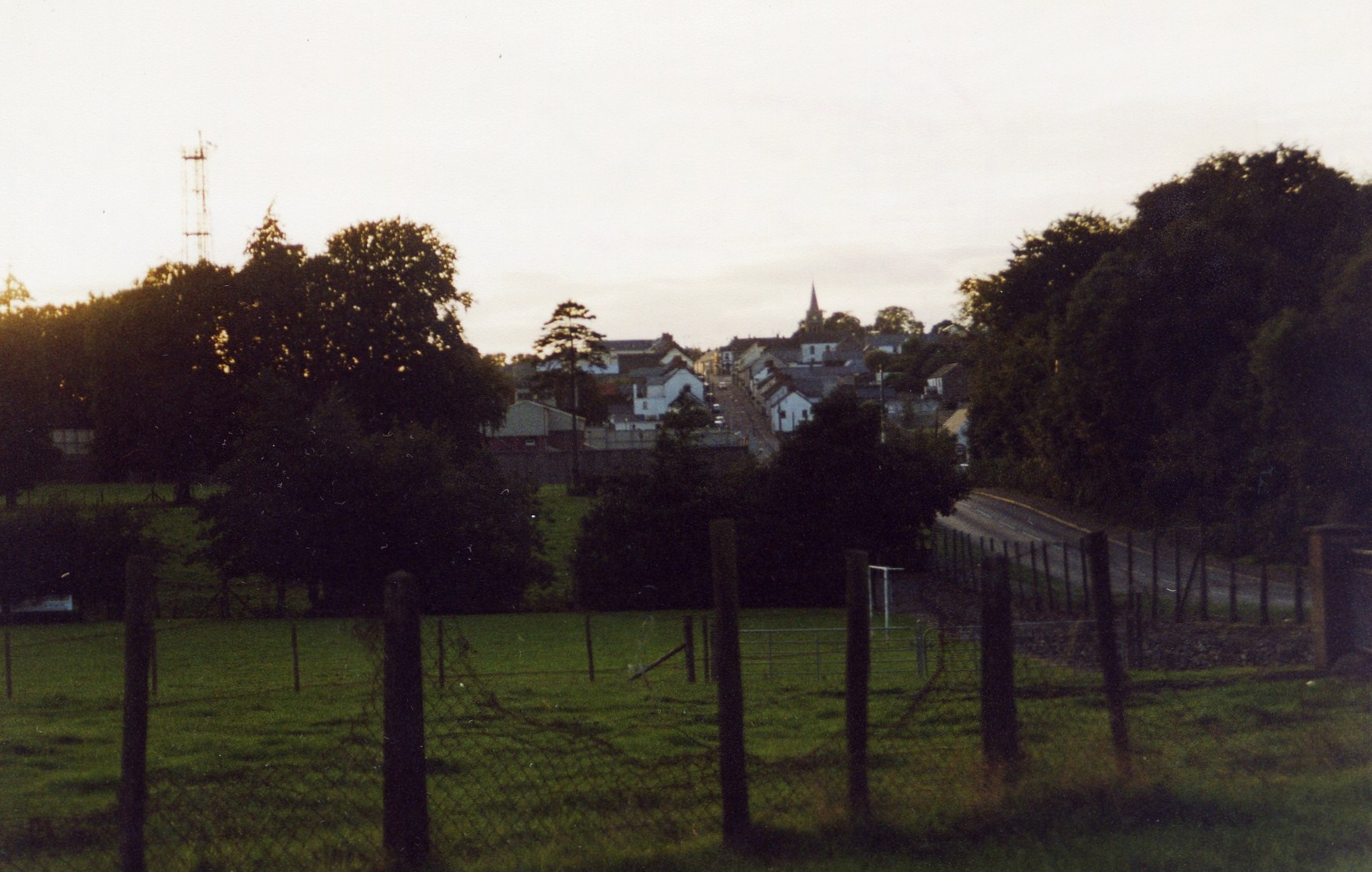 View of Pomeroy from the Cookstown Road